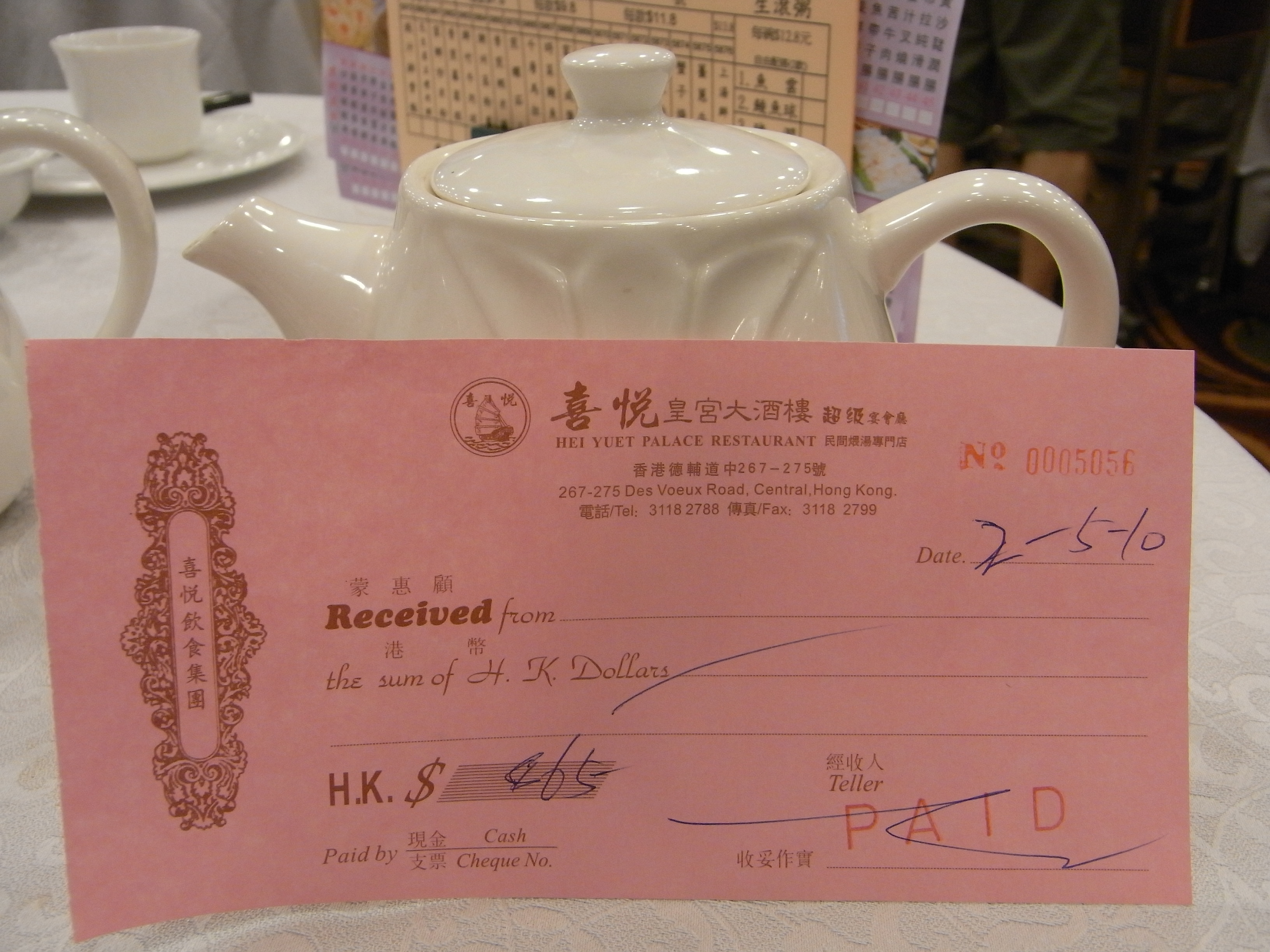 上環zh:喜悅海鮮酒家 會計文件 收條 表格